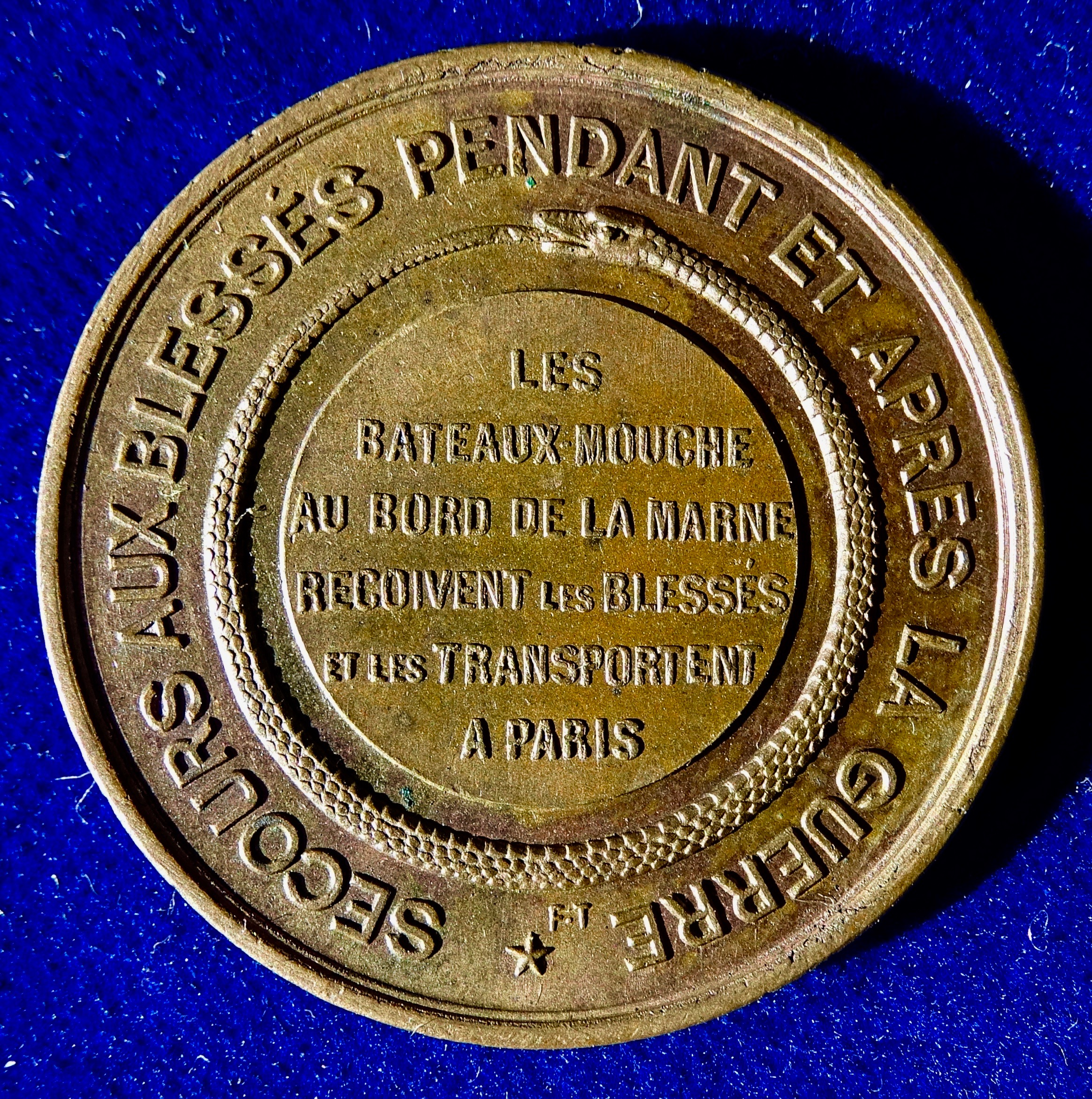 Franco-Prussian War 1970 Red Cross Medal, Bateaux-Mouche Boats for Wounded Soldiers. Bronze medallion, d. = 32 mm. Bateau-Mouche excursion boats provide visitors to Paris, France, with a view of the city since 1867. In the War of 1870-1871 they were used by the French Red Cross, like several Paris public buildings, to accommodate wounded soldiers. Around flag of the Red Cross: "* 1870 * MONUMENTS DE LA VILLE DE PARIS TRANSFORMÉS EN AMBULANCES MILRES *" / 6 lines within Ouroboros: "LES BATEAUX-MOUCHE AU BORD DE LA MARNE RECOIVENT LES BLESSÉS ET LES TRANSPORTENT A PARIS". Surrounding: "* SECOURS AUX BLESSÉS PENDANT ET APRÈS LA GUERRE". Brettauer 3632; ND11925. Madallist : F.T